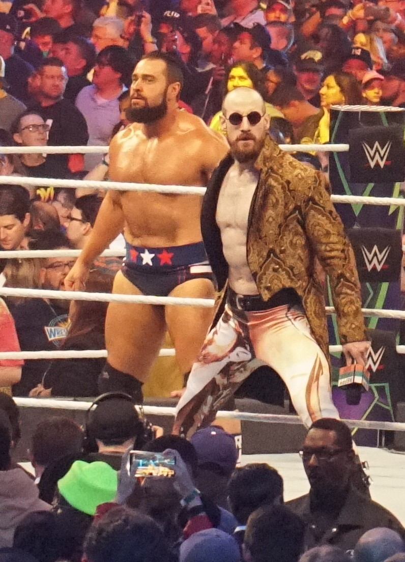 Alexander Rusev and Aiden English at WrestleMania 34.